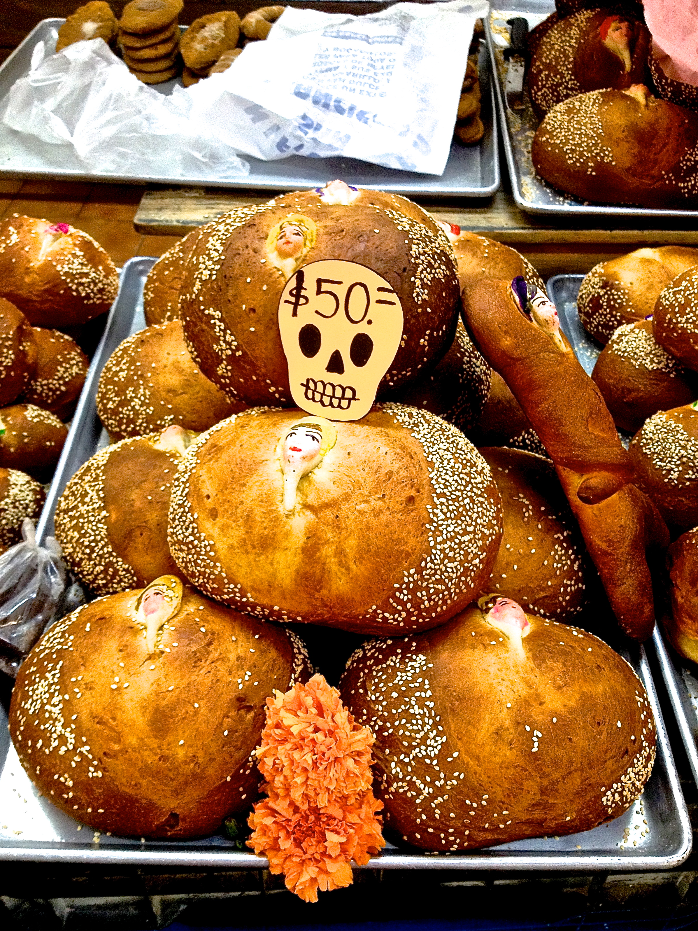 Pan de yema en un mercado Oaxaqueño